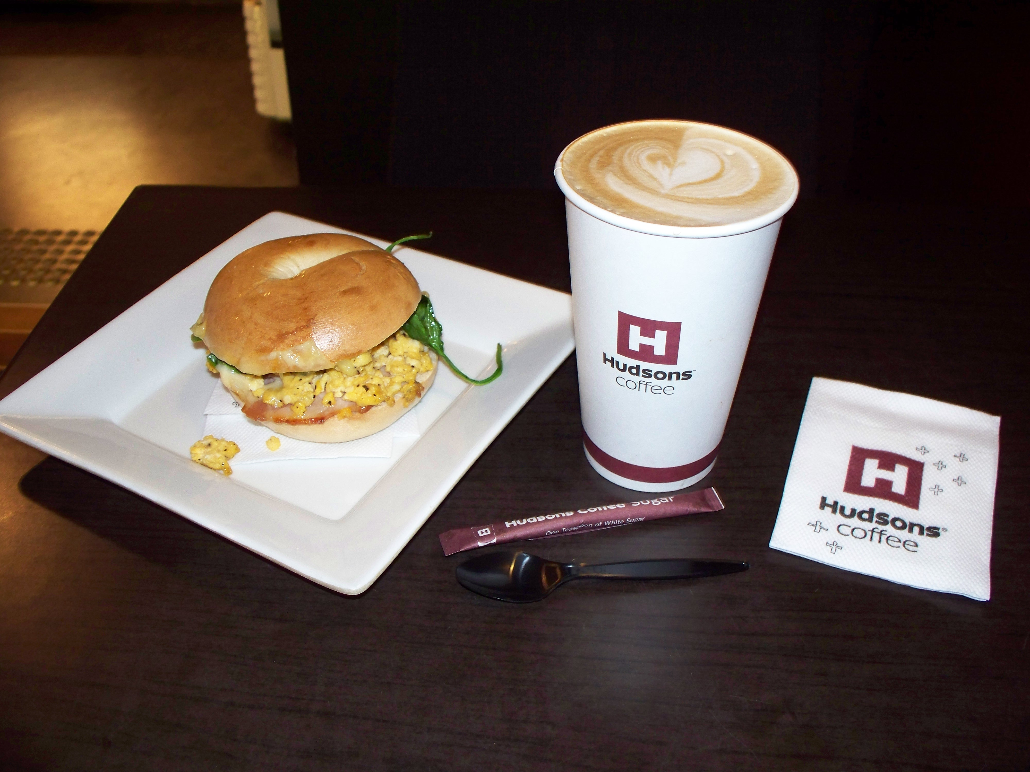 A Hudsons Coffee Gourmet Breakfast Bagel and Tall size latte. These "New York" style bagels were introduced nationwide in April 2013. Other information This picture was taken using a 12MP Kodak EasyShare Z1275 camera.